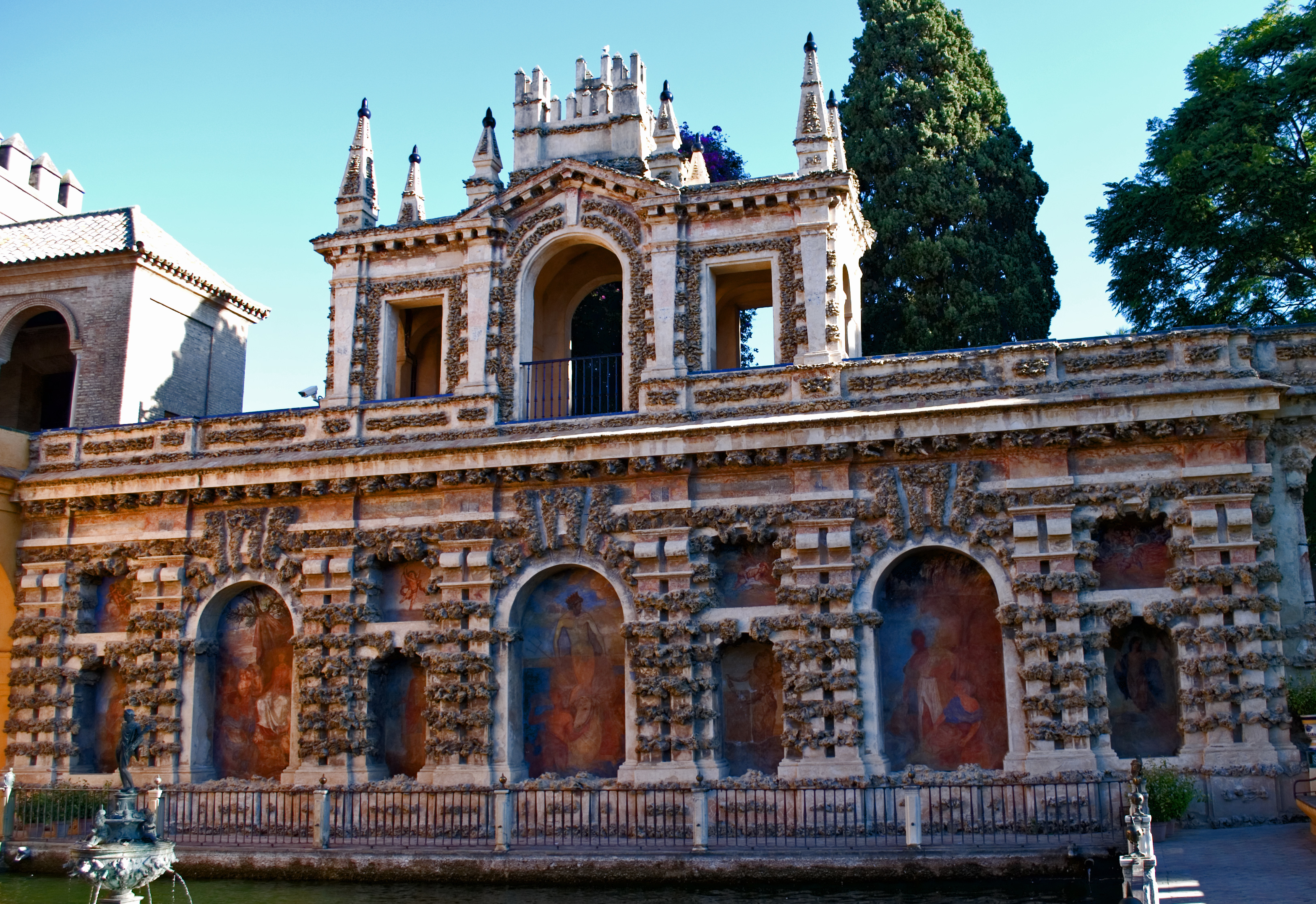 Gardens of Alcázar of Seville